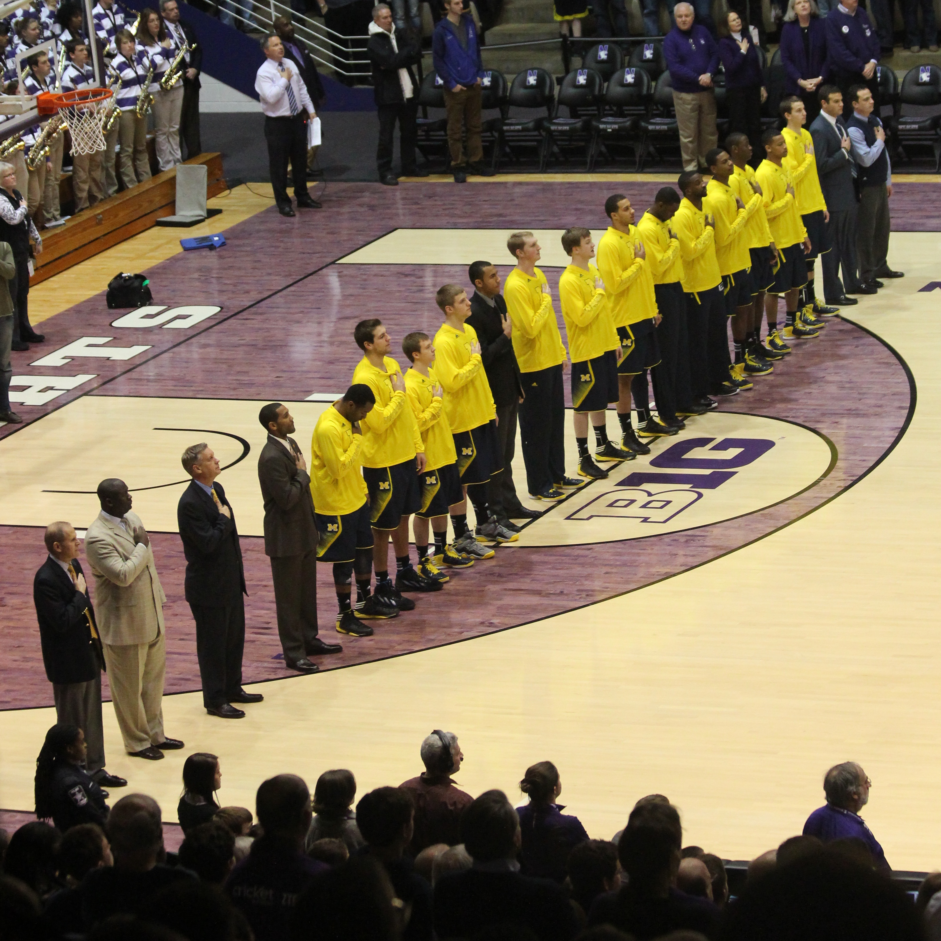 2012–13 Michigan Wolverines men's basketball team on January 3, 2013 at Welsh-Ryan Arena for their w:2012–13 Big Ten Conference men's basketball season opener